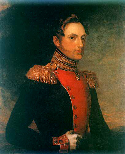 Nicholas I of Russia (then merely a second in the order of succession) in 1823, by George Dawe